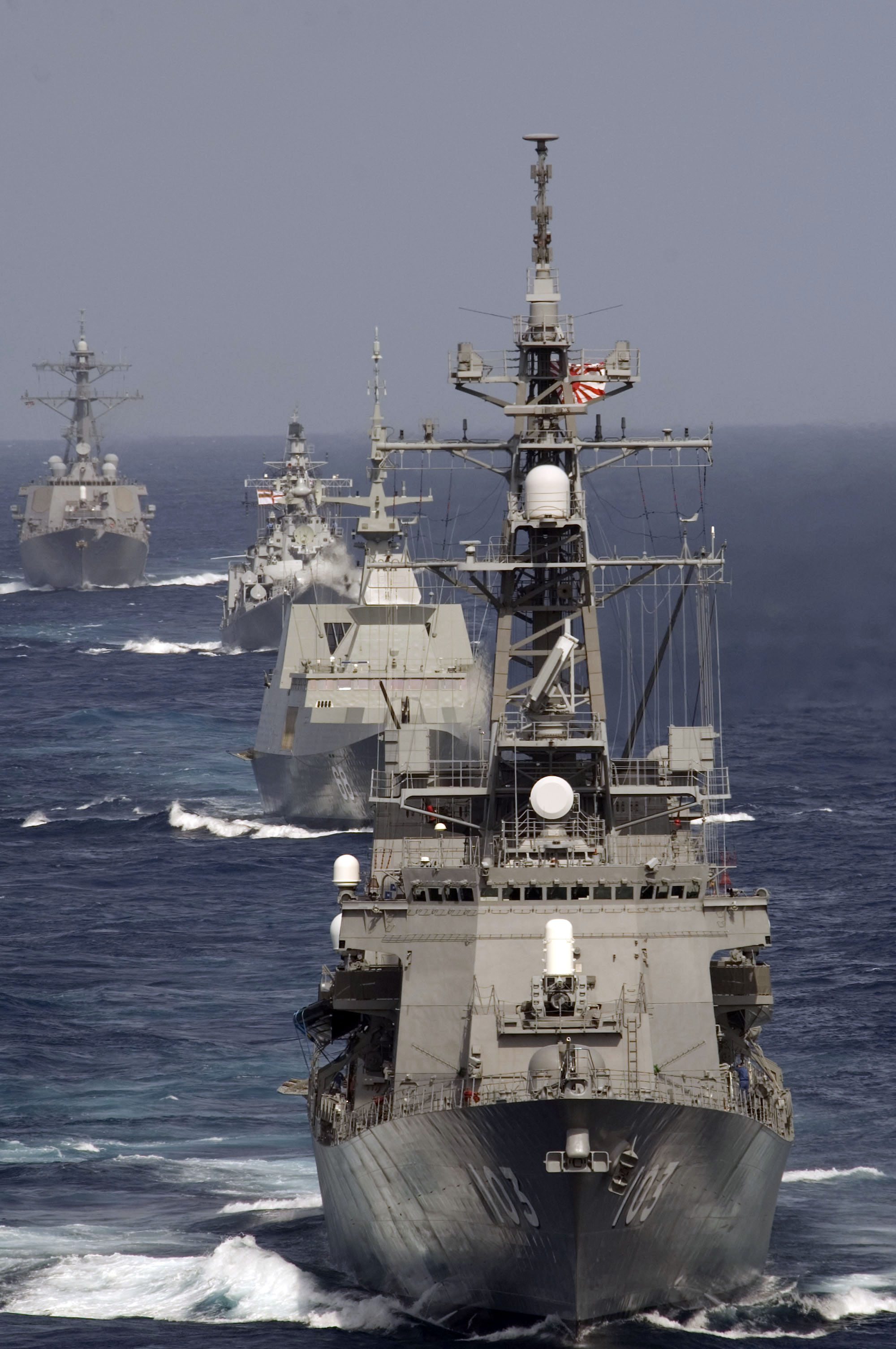 BAY OF BENGAL (Sept. 5, 2007) - Japan Maritime Self-Defense Force destroyer JS Yuudachi (DD-103) leads a formation of ships during Exercise Malabar 2007 in the Bay of Bengal. More than 20,000 naval personnel from the navies of Australia, India, Japan, the Republic of Singapore, and the United States are taking part in the exercise, designed to increase interoperability among the navies and to develop common procedures for maritime security operations. U.S. Navy photo by Mass Communication Specialist 3rd Class Juan Antoine King (RELEASED)